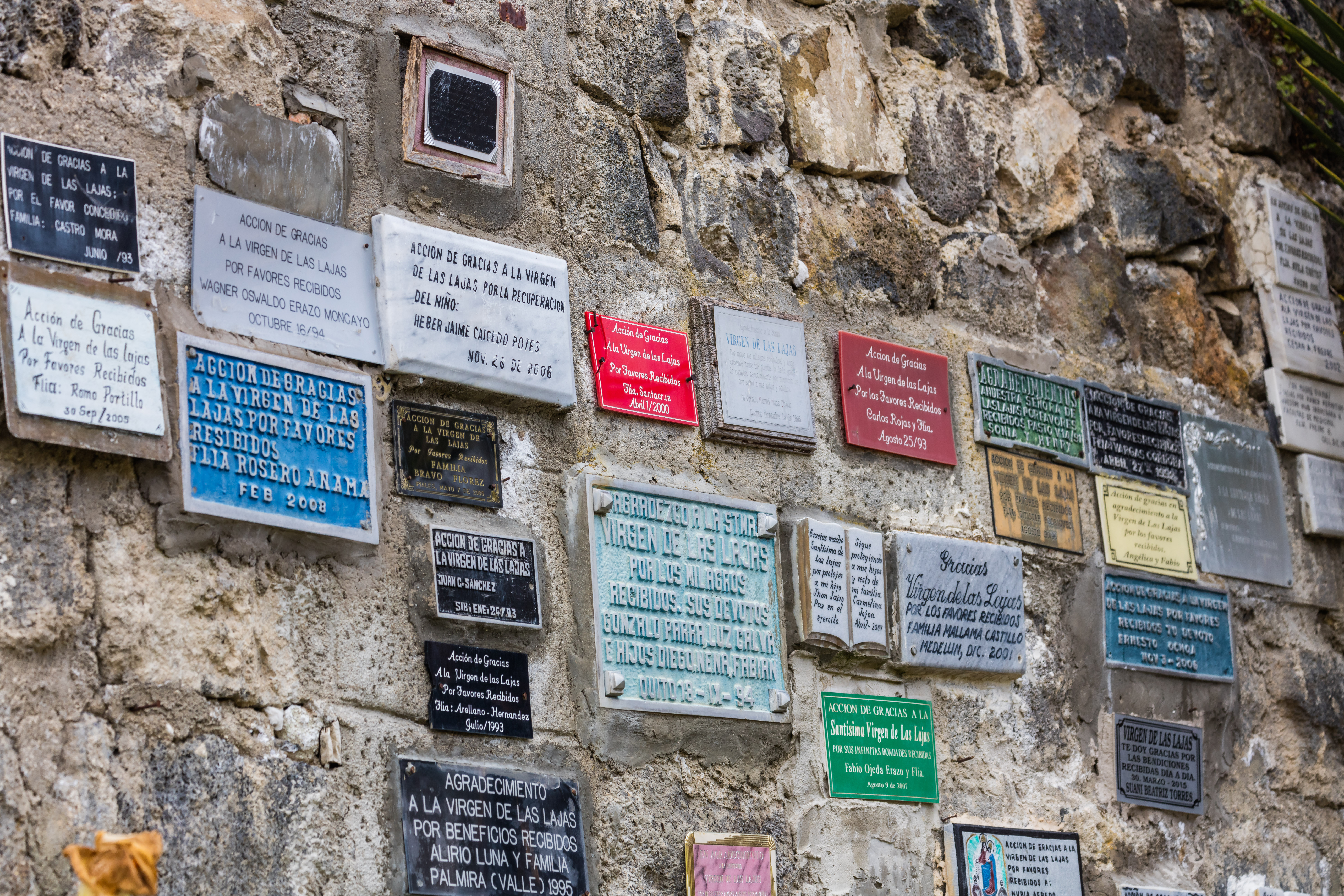 Sanctuary of Las Lajas, Ipiales, Colombia